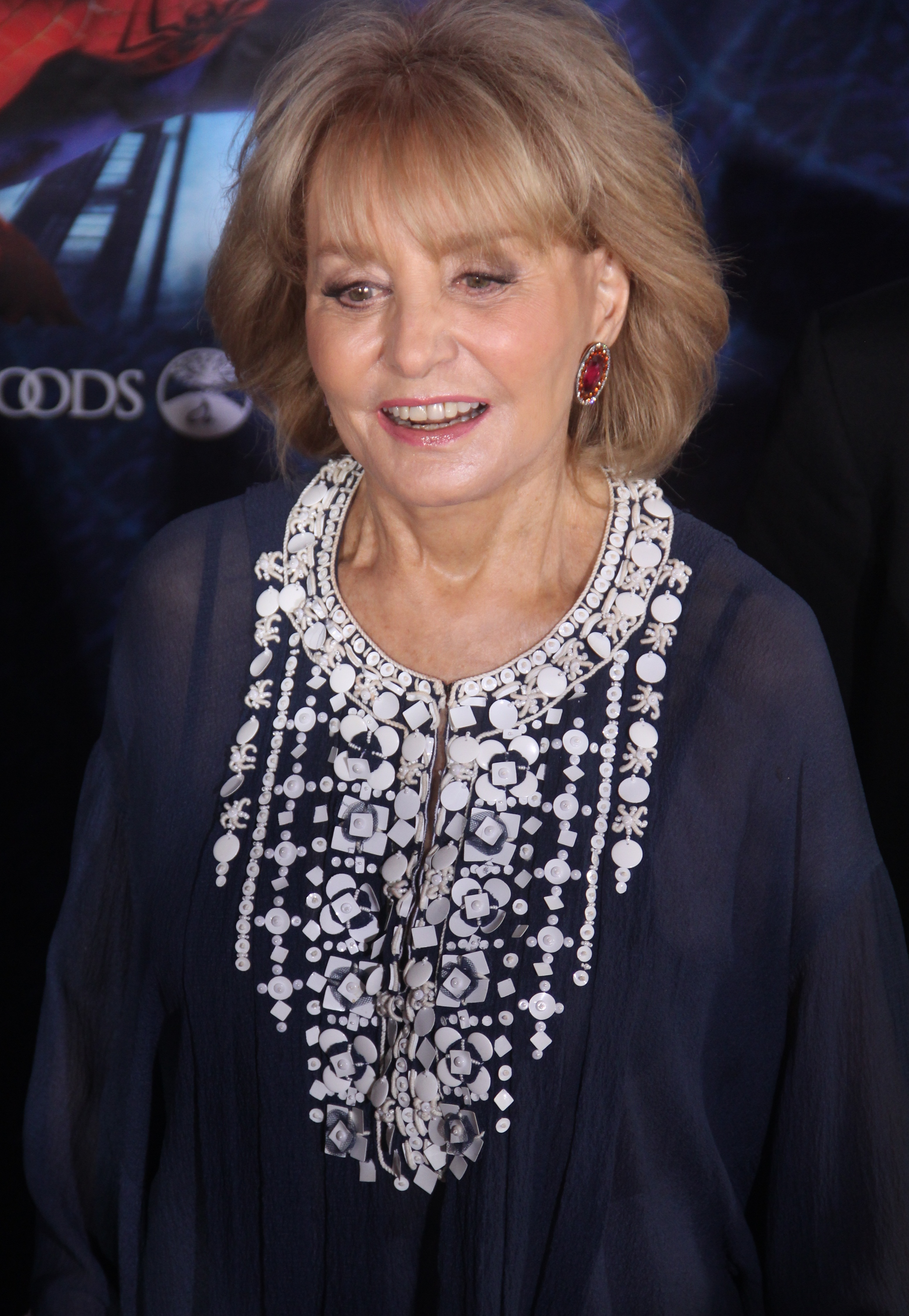 Barbara Walters at the Spiderman: Turn Off the Dark opening at Foxwoods Theatre, New York City in June 2011